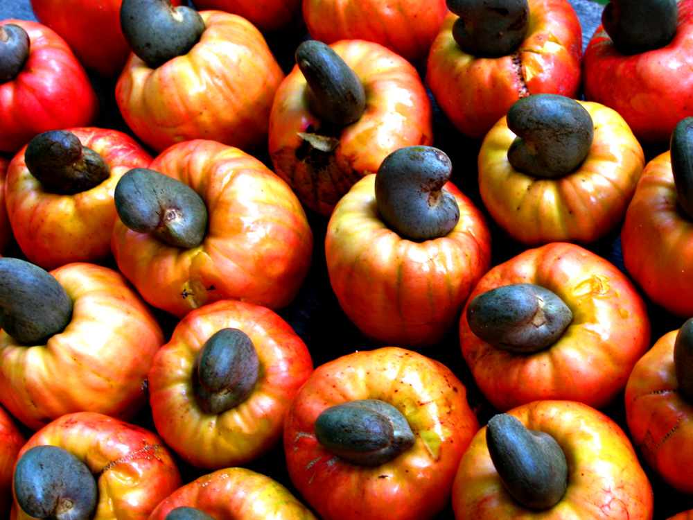 Cashew (1)